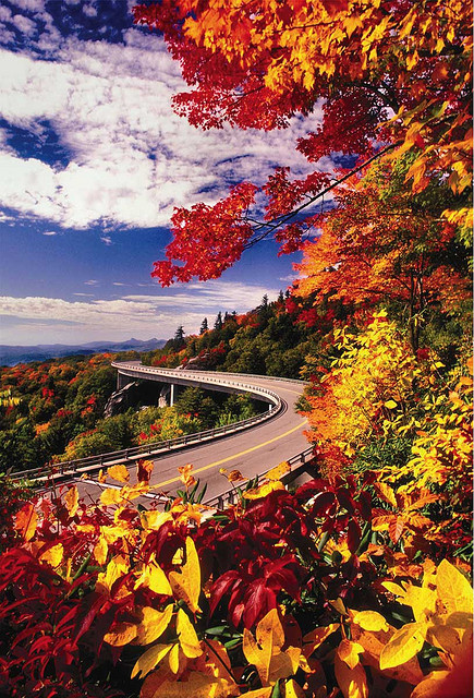 For more photos visit our Blue Ridge Tours set or the Go Blue RIdge Card Collection For more info Go Blue Ridge Card visit our website